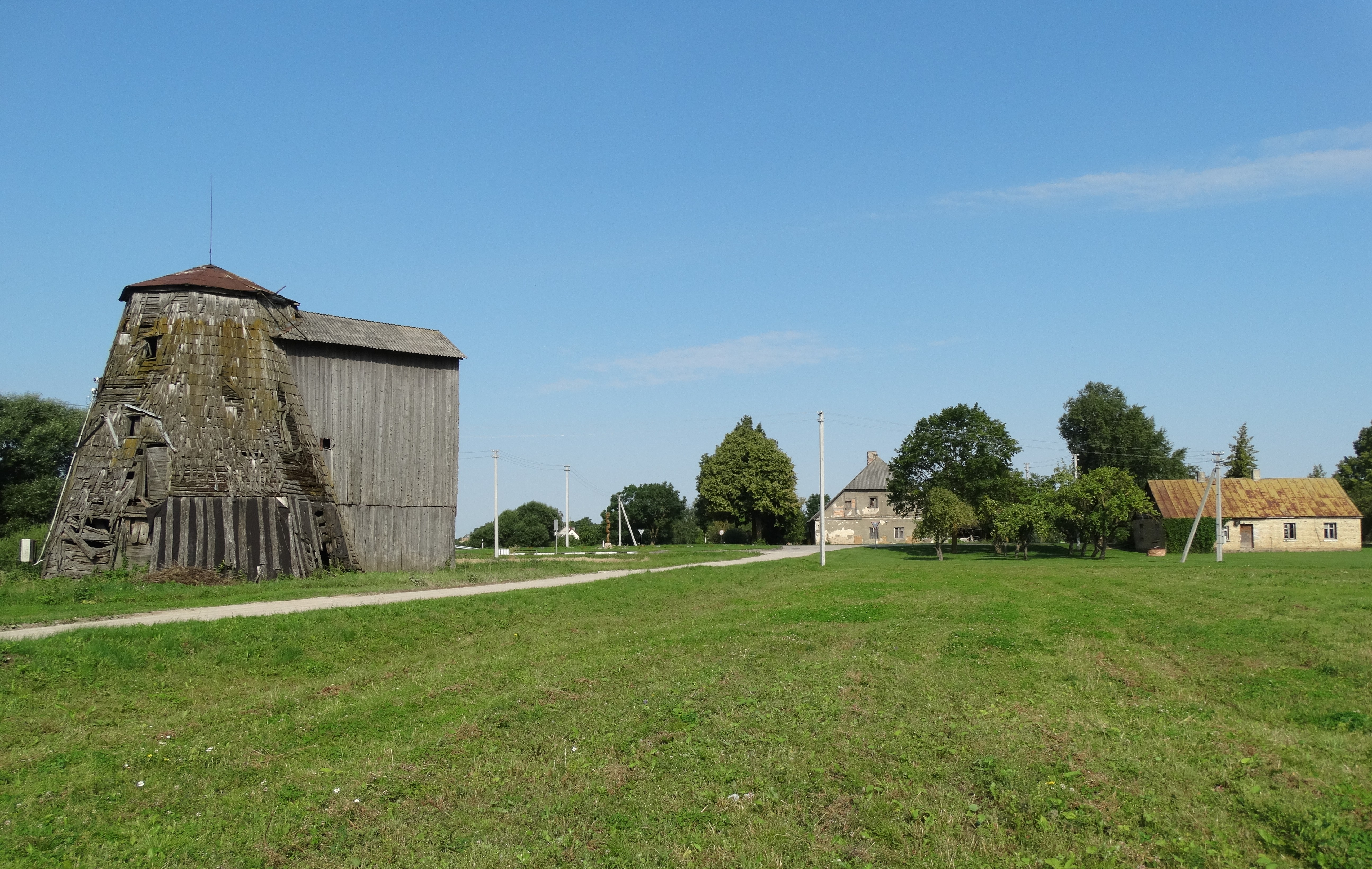 Pamūšis, Pakruojis District, Lithuania